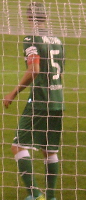 Mantovani